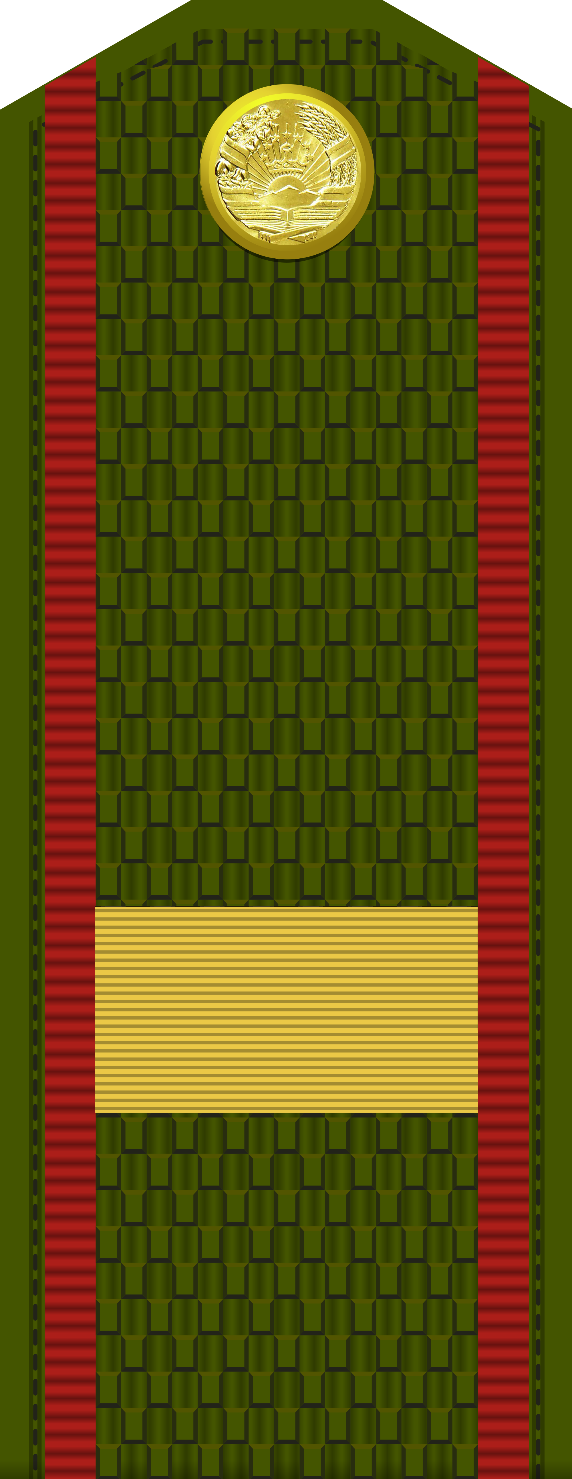 Тоҷикӣ: Rank insignia of Senior Sergeant for the Tajikistan Army